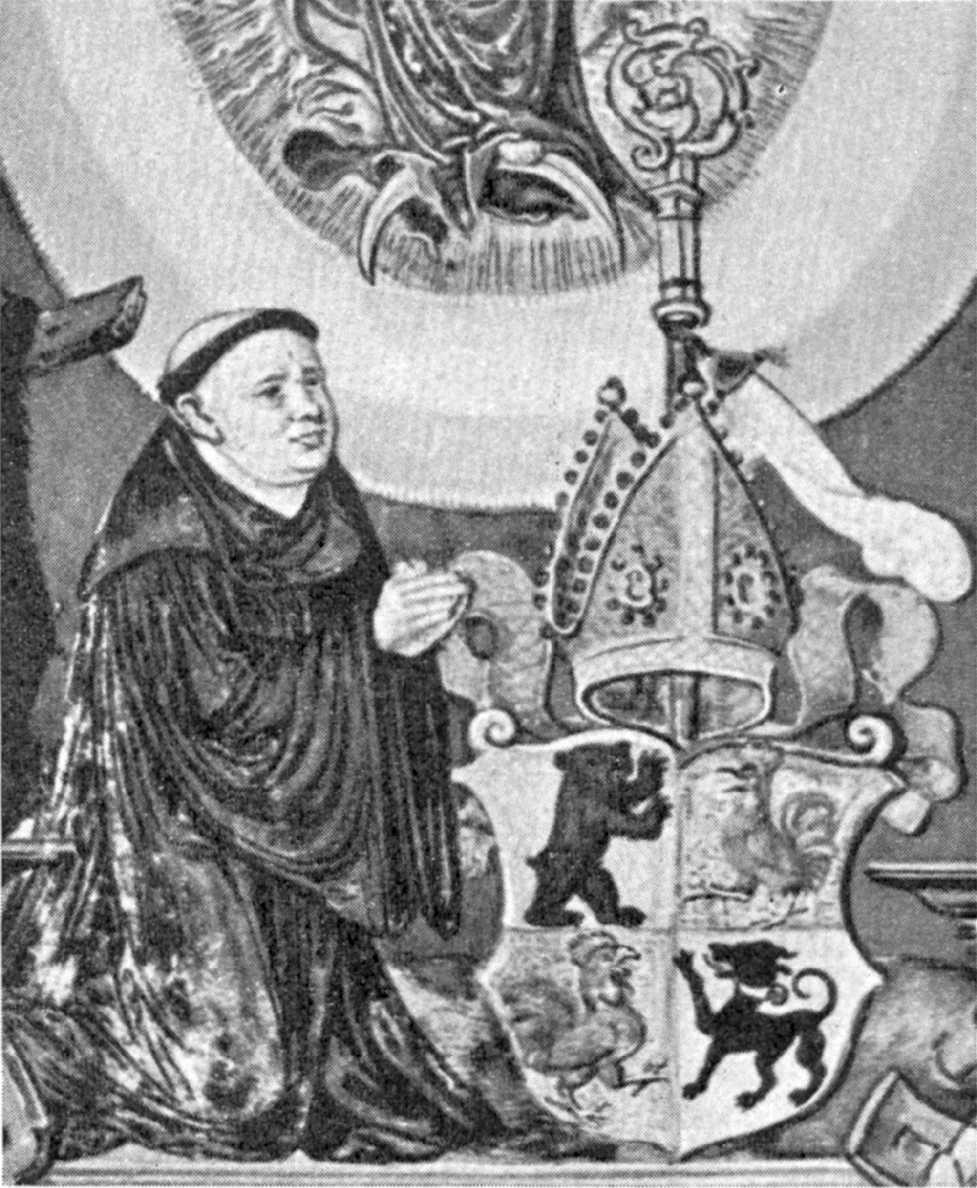 Blazon of Abbot Diethelm Blarer von Wartensee